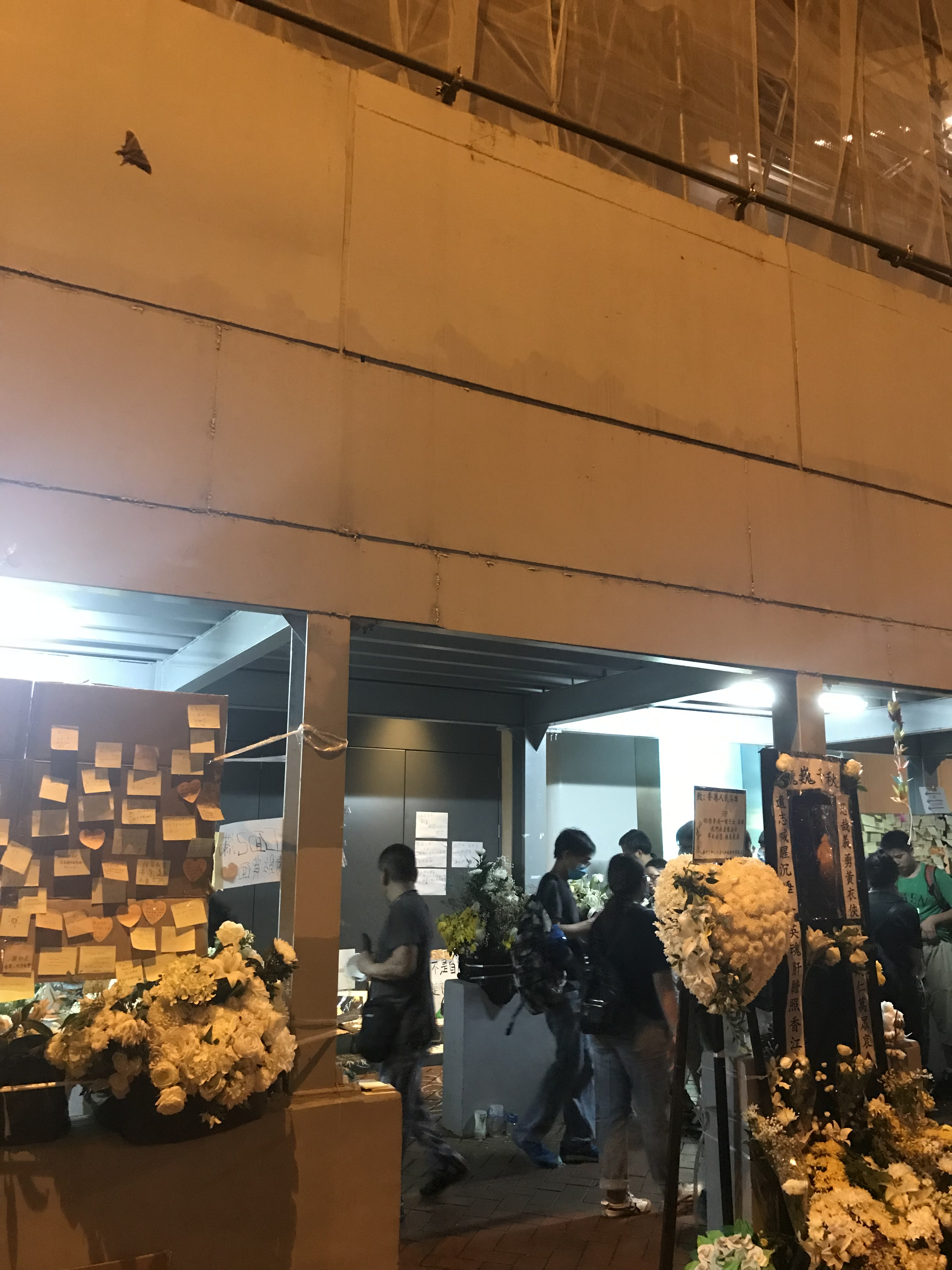 Leung Ling Kit Marco passed away on the 15 Jun 2019 for the Anti Extradition to Mainland China movement and for genuine universal suffrage in Hong Kong. At the night of 21 Jun, a memorial ceremony was held at where he fell down. At the same time, a moth flew back to the scene.